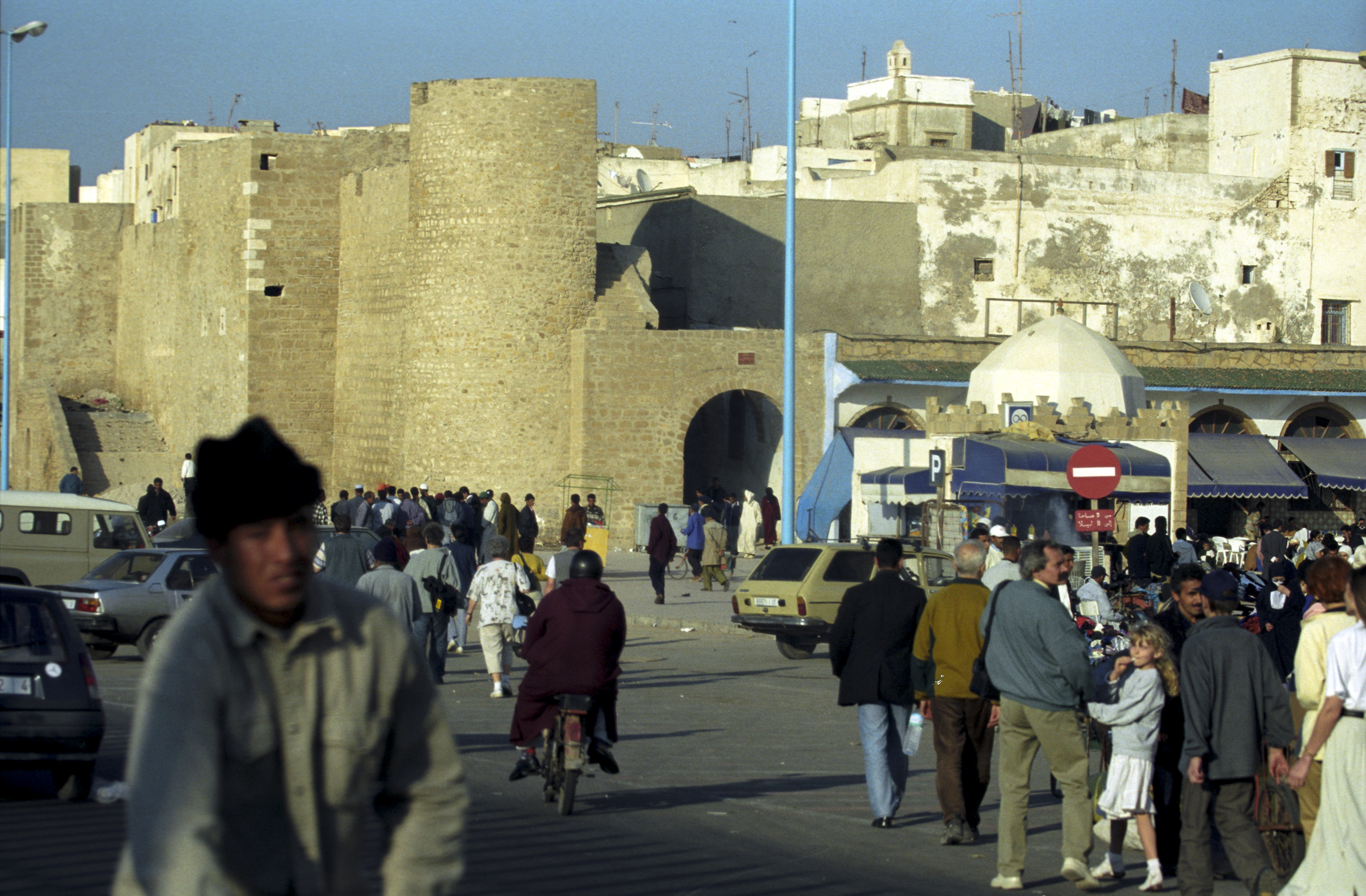 Safi, Walls of medina